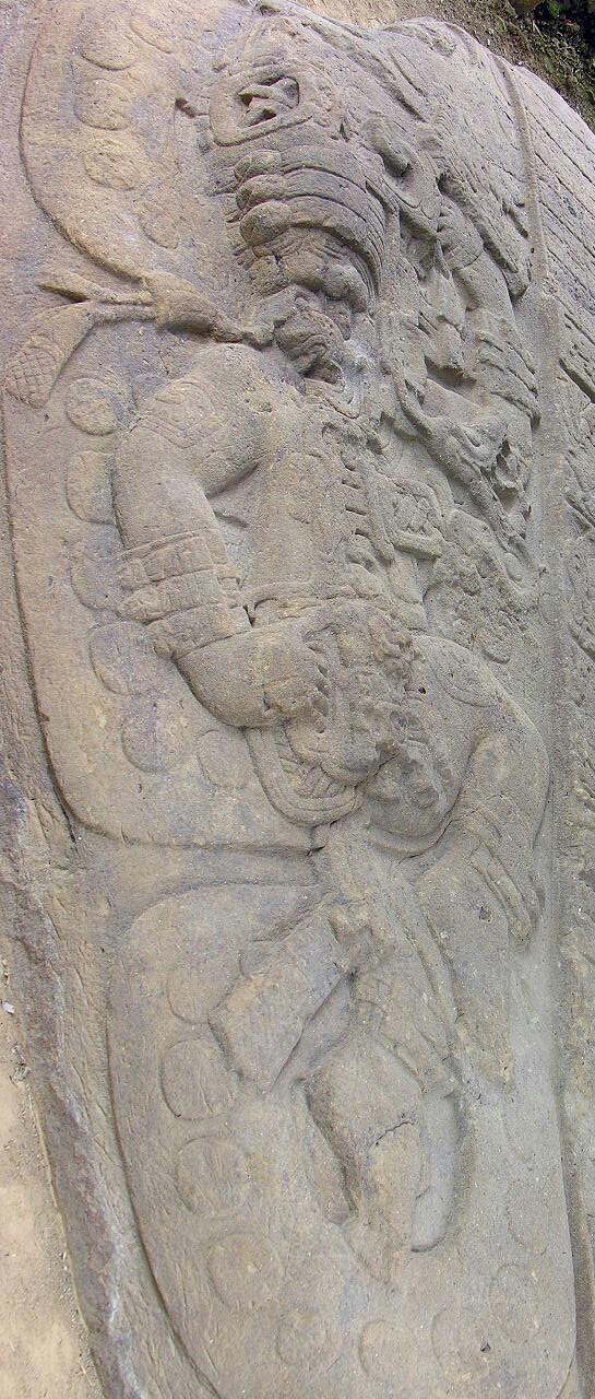 Image of the lightning god Yopaat on Altar O' at the Classic period Maya site of Quirigua, Izabal, Guatemala.